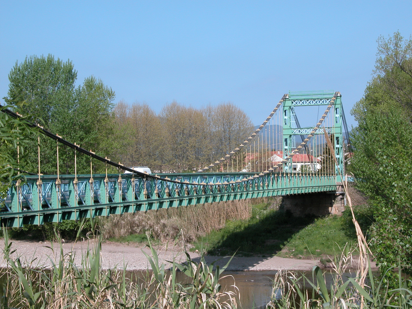 Cessenon bridge